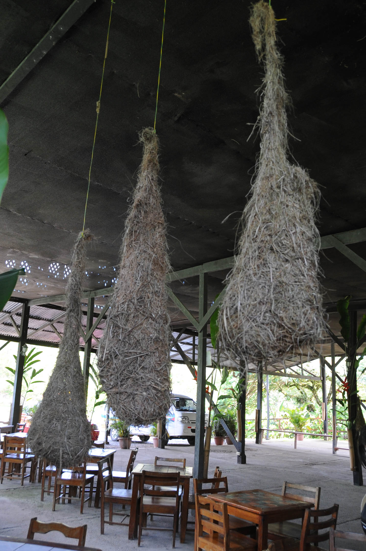 Nests of oropendola birds in the tractor shed of the Cedar Valley ranch in Puerto Limon, Costa Rica. The males build this nest and take care of the young. There are many species of oropendola birds which inhabit Central America.